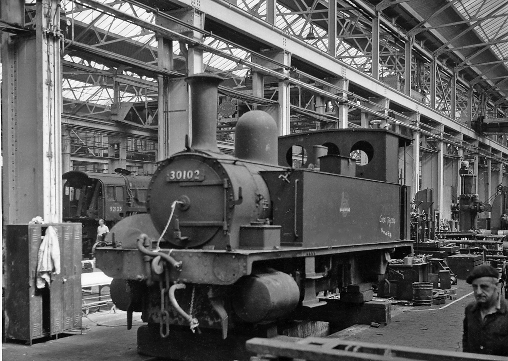 Ex-LSW 0-4-0T inside Eastleigh Works. Adams class B4 0-4-0T, formerly 'Granville' (built 12/1893, withdrawn 9/63), had been a Southampton Docks shunter. Here it is being restored for preservation Butlin's Skegness, now at the Bressingham Steam Centre. Beyond can be glimpsed a much more modern BR 9F 2-10-0, from Saltley LMR.